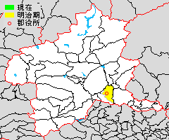 Map showing extent of former Sai District, Gunma, Japan